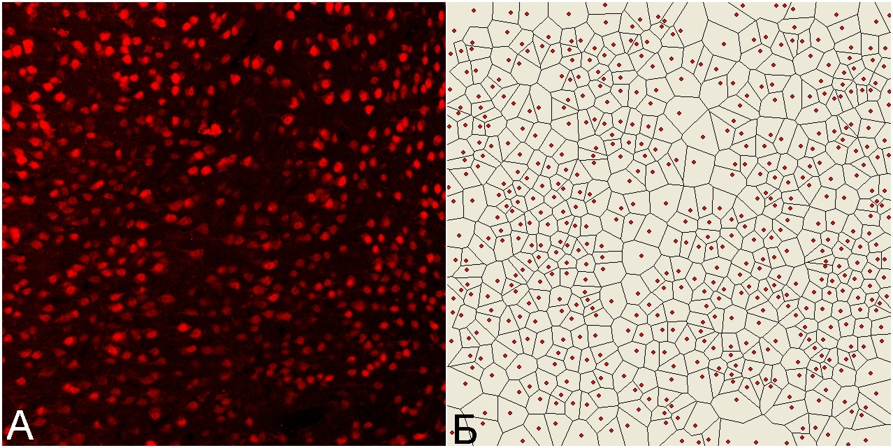 Photo of neurons together with Voronoi mosaic built on their centroids